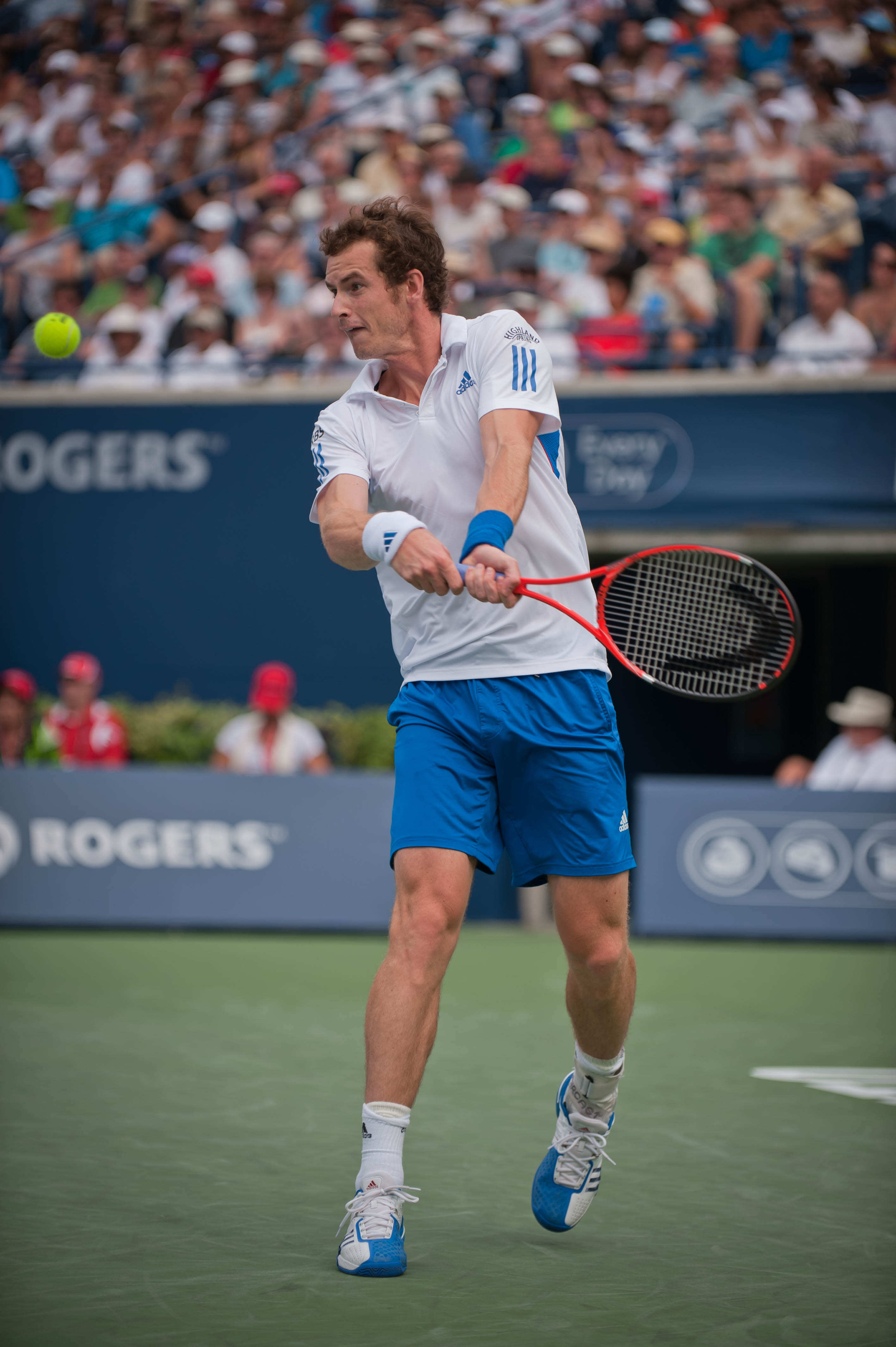 Murray hitting a backhand whilst playing Rafa Nadal.